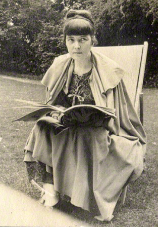 Photograph of Katherine Mansfield